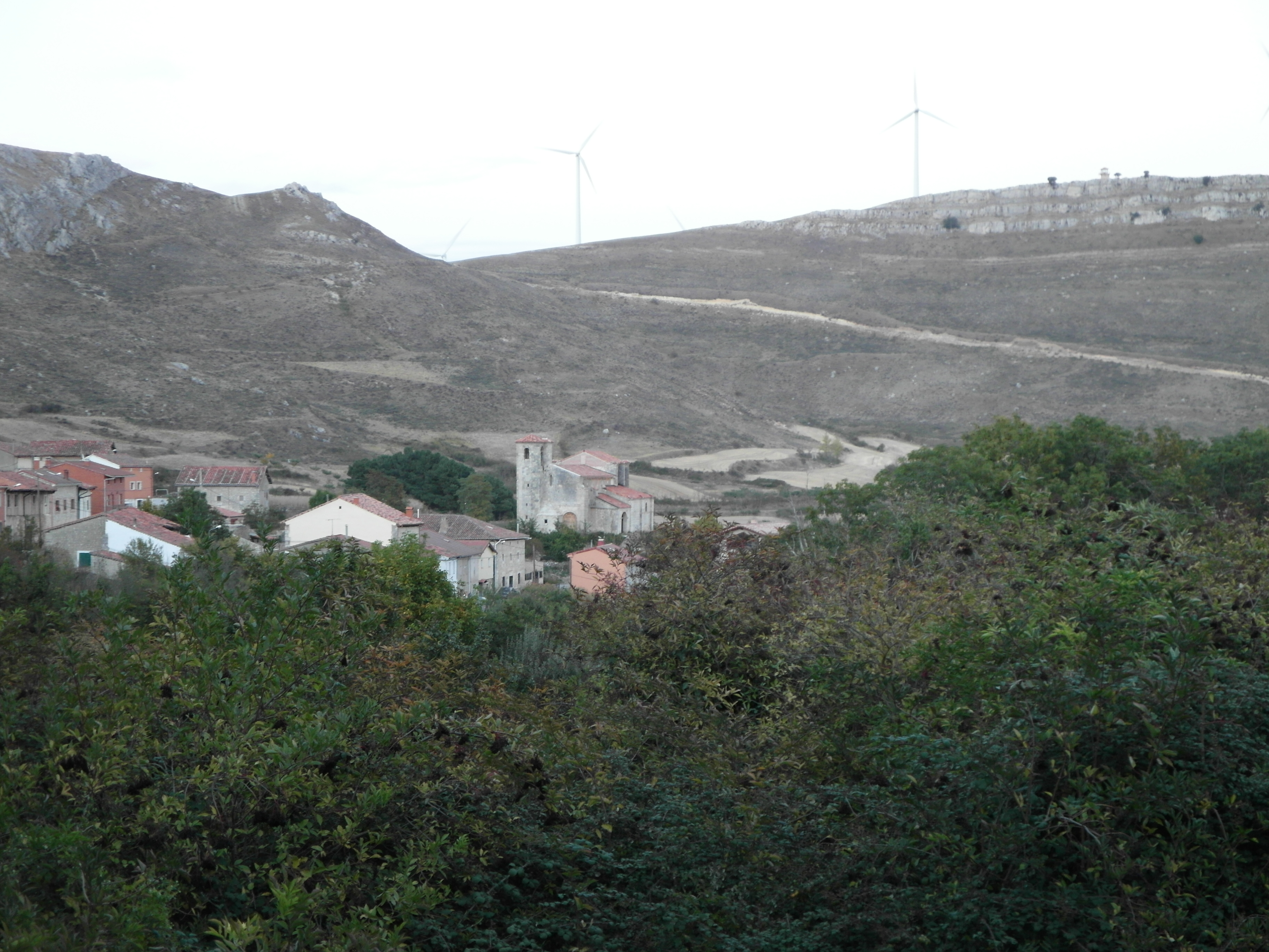 Iglesia del barrio de Santa Marina de Monasterio de Rodilla, Burgos.